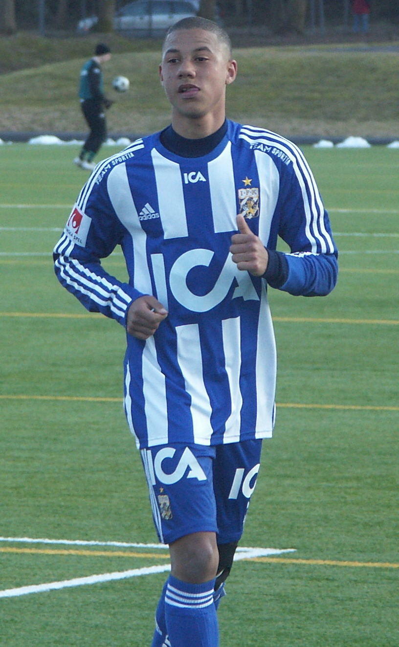 Swedish football player Tobias Sana of IFK Göteborg.